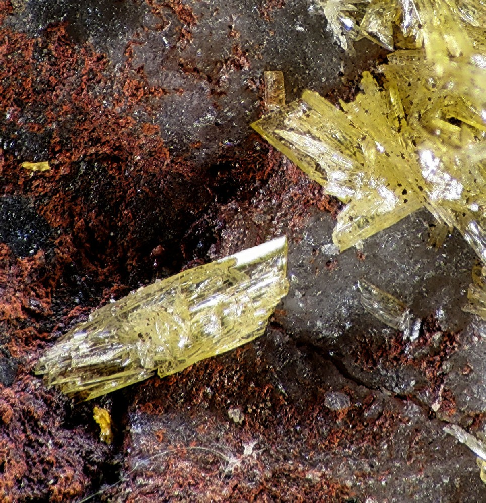 Carlfriesite Locality: Moctezuma Mine (Bambolla Mine), Moctezuma, Municipio de Moctezuma, Sonora, Mexico (Locality at ) Picture width 2 mm. Collection and photograph Christian Rewitzer